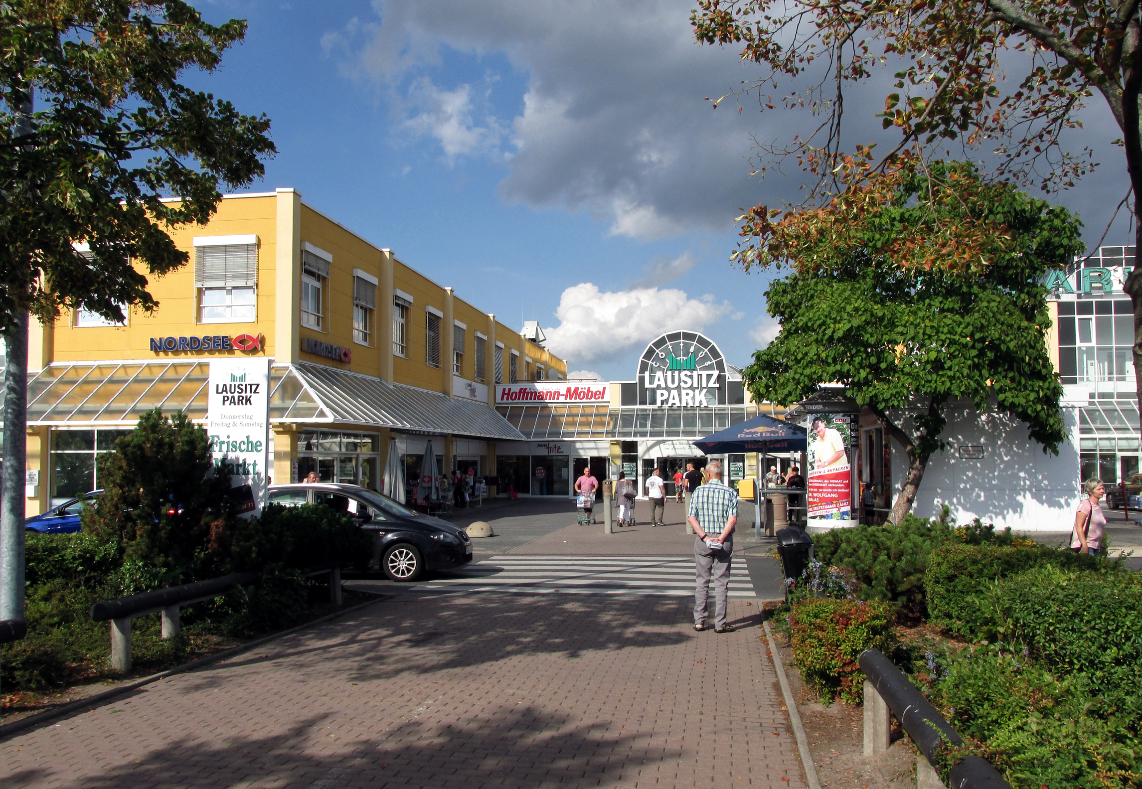 Lausitz Park is a typical example of an early 1990s suburban big-box shopping mall and the largest one of its type in Cottbus. It is situated in CB-Groß Gaglow between Bundesautobahn 15 and the old village. At the time of writing, there are just over 50 tenants, the largest ones by floor space being Marktkauf, Hoffmann Möbel and Obi.